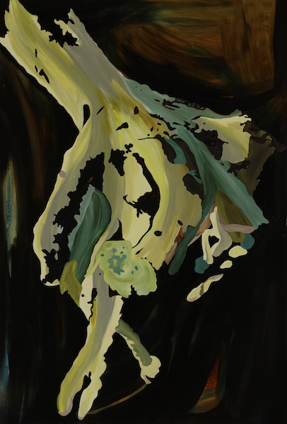 Clare Woods 'Dead Spring' 110x75cm, Oil on Aluminium (2011)